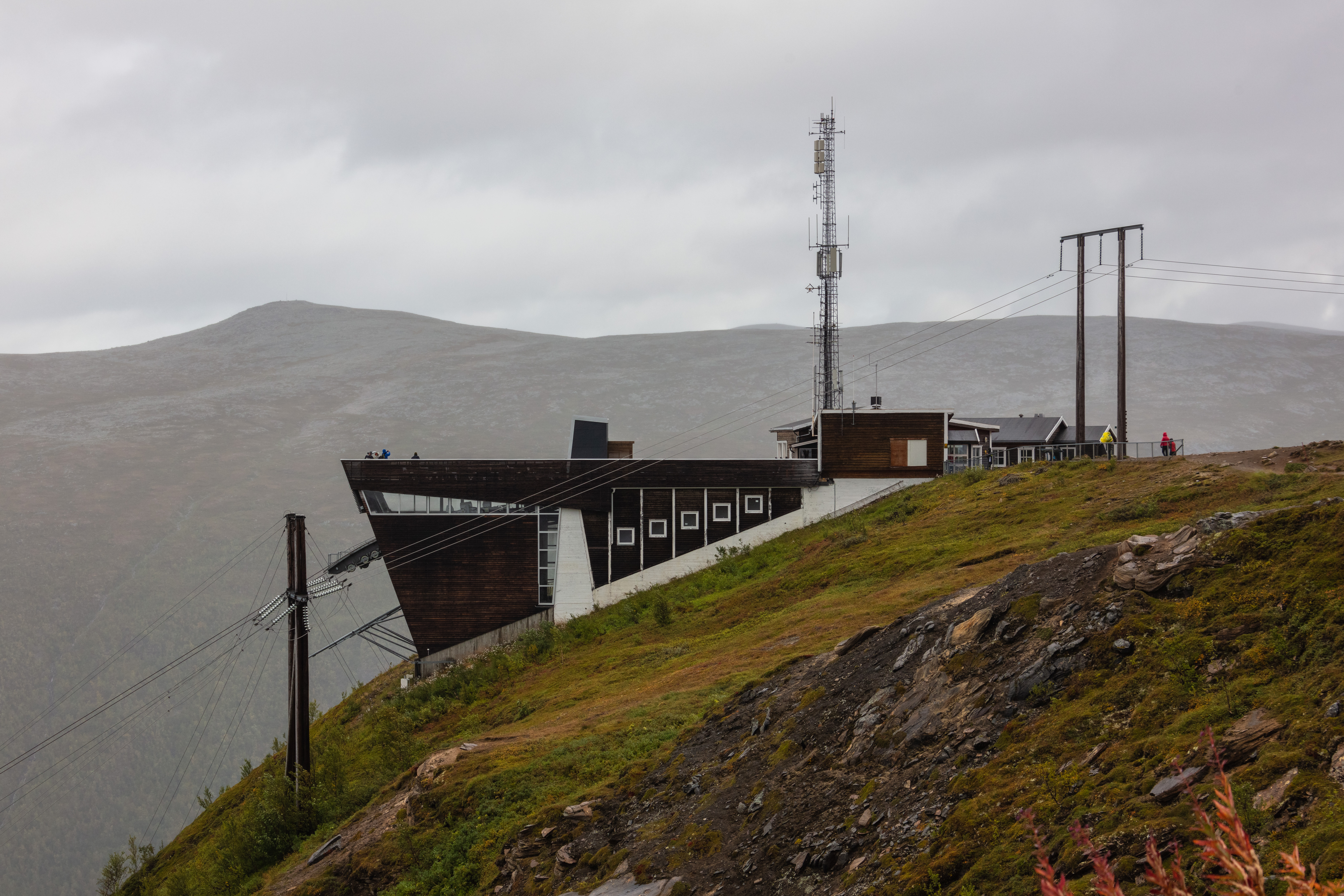 Cable car, Tromsø, Norway